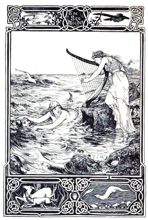 Frontispiece of Joseph Jacobs' Celtic Fairy Tales.